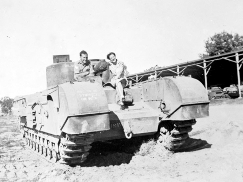 An Infantry Tank Mk IV, also known as a Churchill Mk VII at Bandiana. Similar tanks are visible in the background.